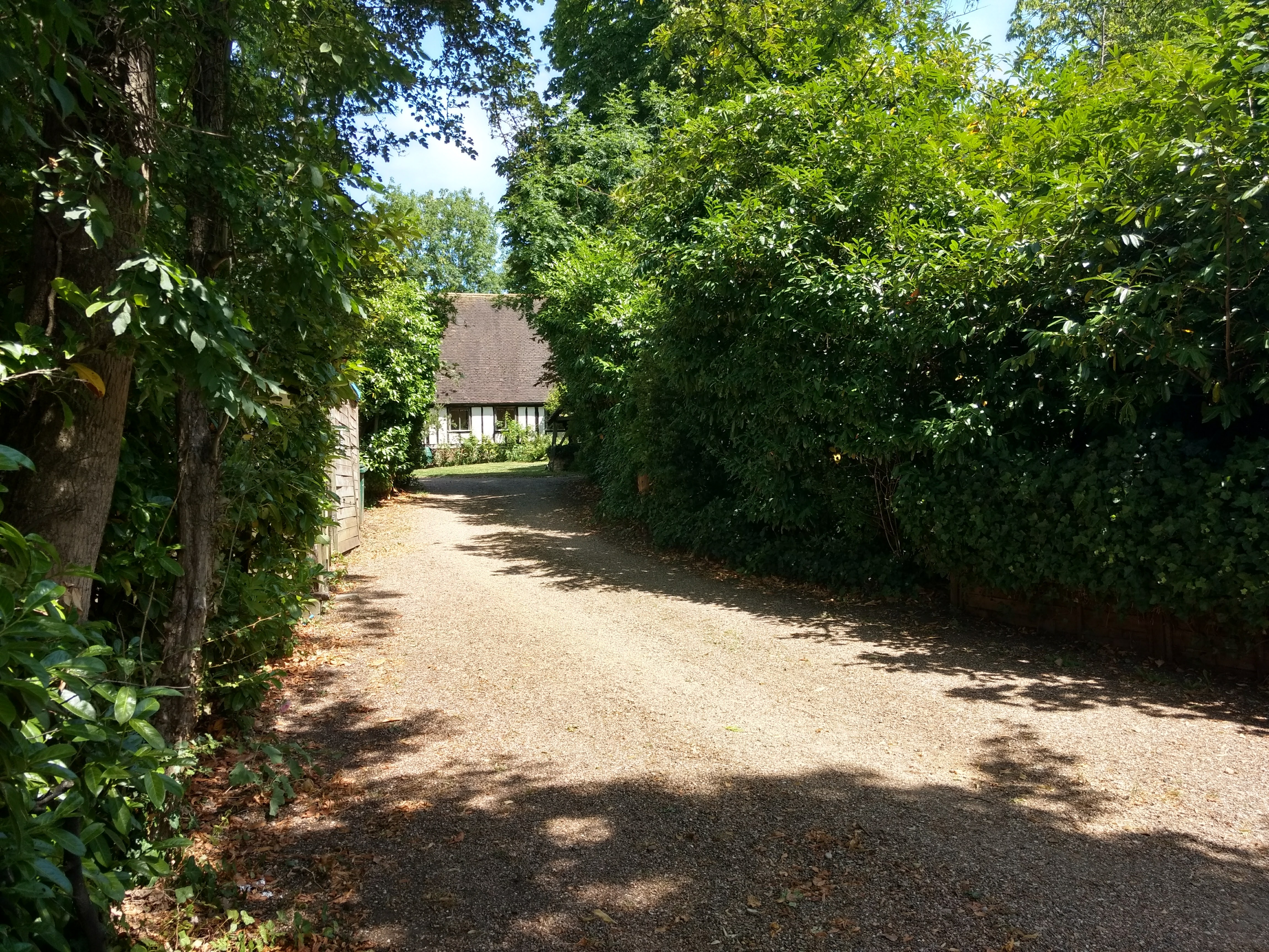 Approach to Abbey Church of Christ the King, New Barnet